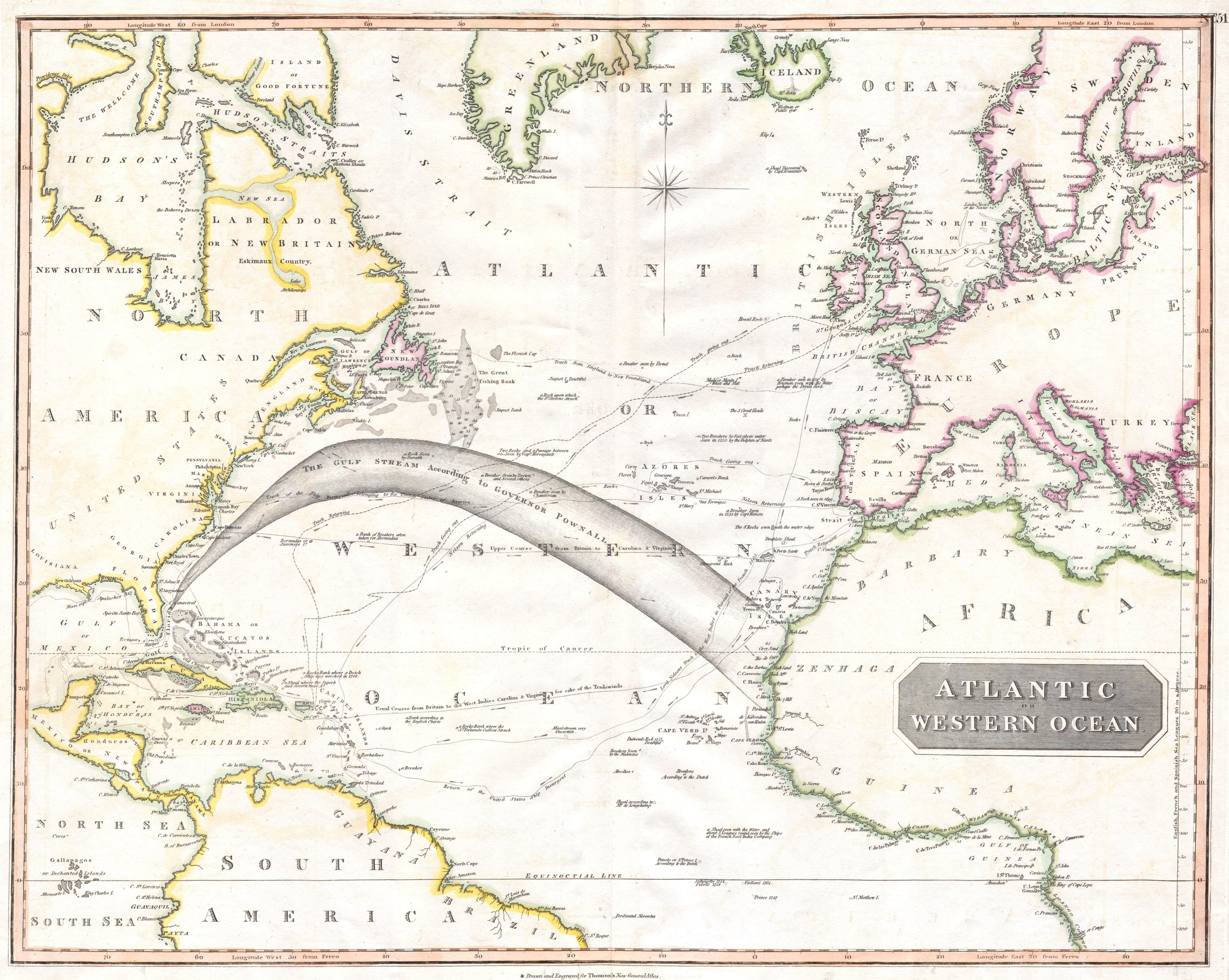 This fascinating hand colored 1814 map by Edinburgh cartographer John Thomson depicts the northern part of the Atlantic Ocean. Extends as for north as Iceland and as far south as Brazil and the Congo. Made during the Napoleonic wars, this stunning map includes references to important battles and nautical routes of the period, including the route taken by Lord Nelson in pursuit of the French in 1805. Also includes path of the Insurgent, which disappeared in the West Indies after being harassed by the French navy, eventually giving rise to the Bermuda Triangle legend. Features a host of nautical notations on the Gulf Stream current, breakers, banks, trade winds and even a supposed “Maalstroom very Uncertain (West of the Cape Verde Islands).” Inland detail is minimal though important port cities and regions are noted.